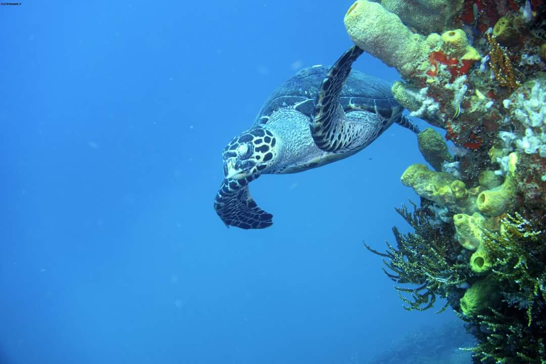 Dame tortue sur le Fran jack en Guadeloupe